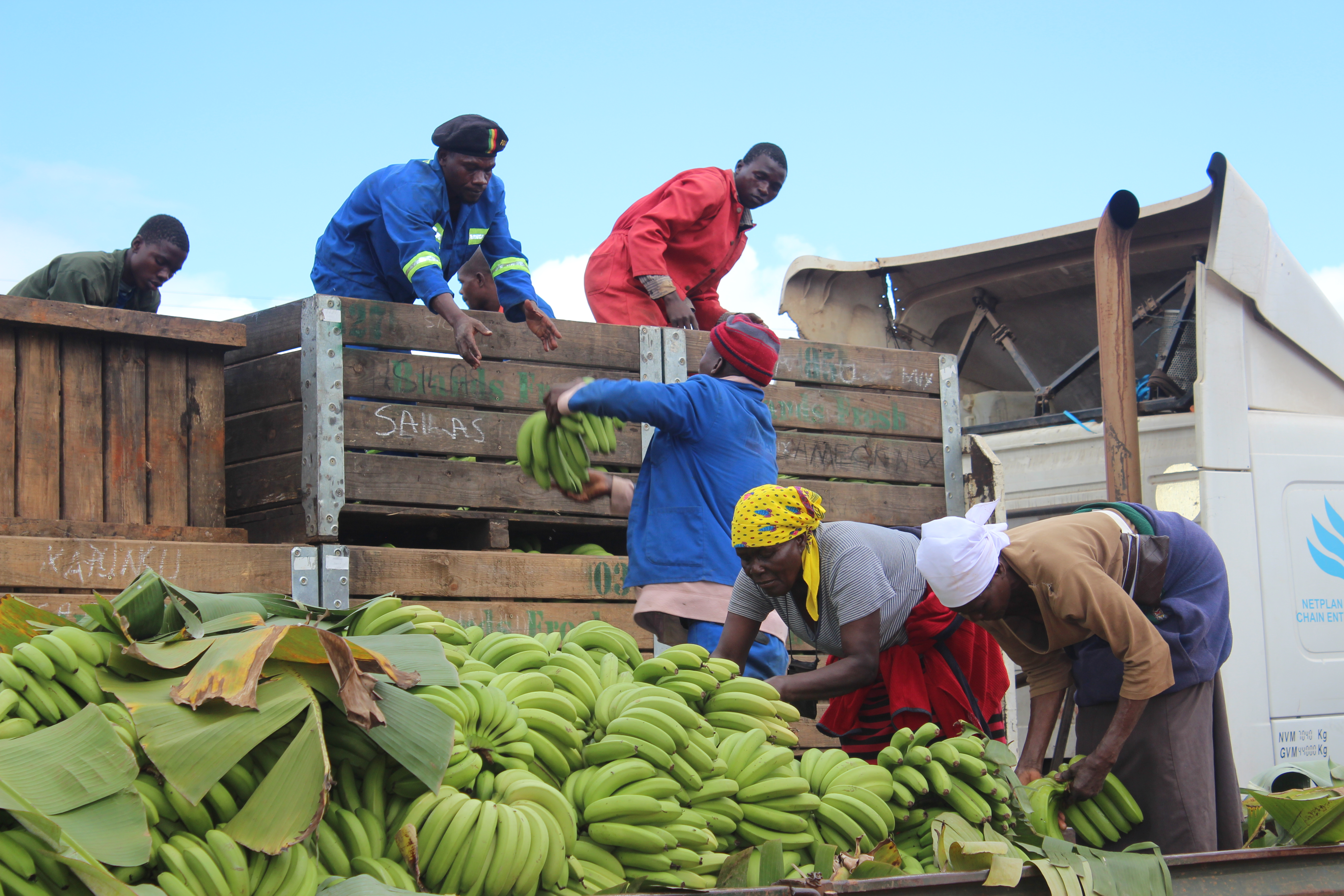 Banana farmers who received technical assistance from USAID load their harvested crop onto trucks that will transport them to Harare for distribution to supermarkets across the country. Credit: Doreen Hove, USAID.